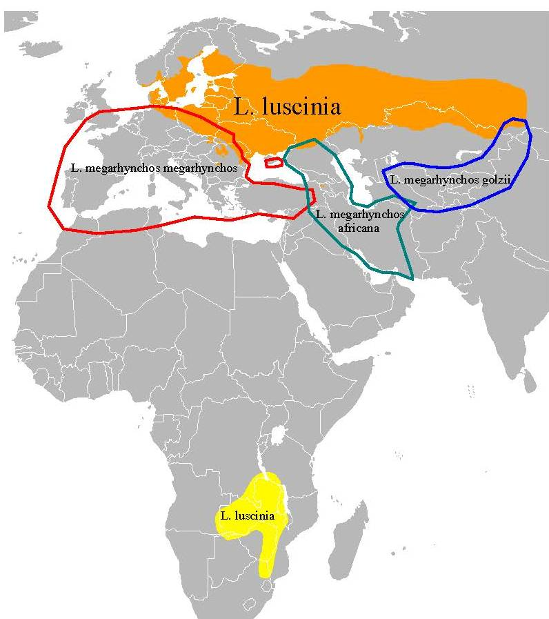 Luscinia luscinia. Distribution map